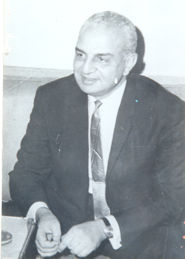 Mamdouh Salem "Former prime minister of Egypt"